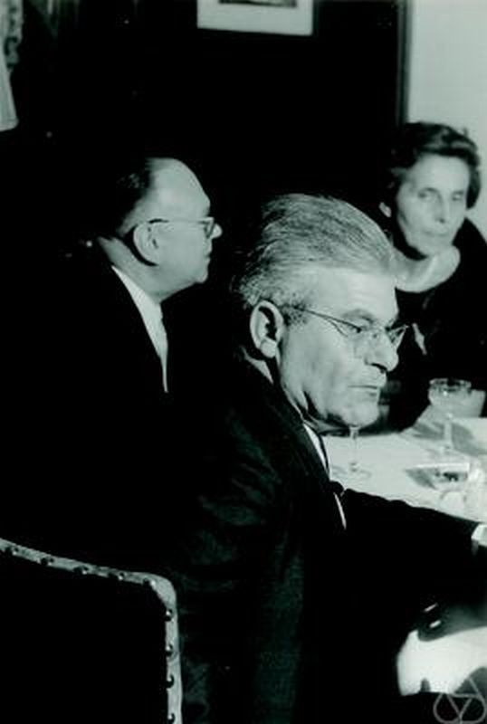 Horst Tietz 1967 in Münster at the Emeritation of Heinrich Behnke